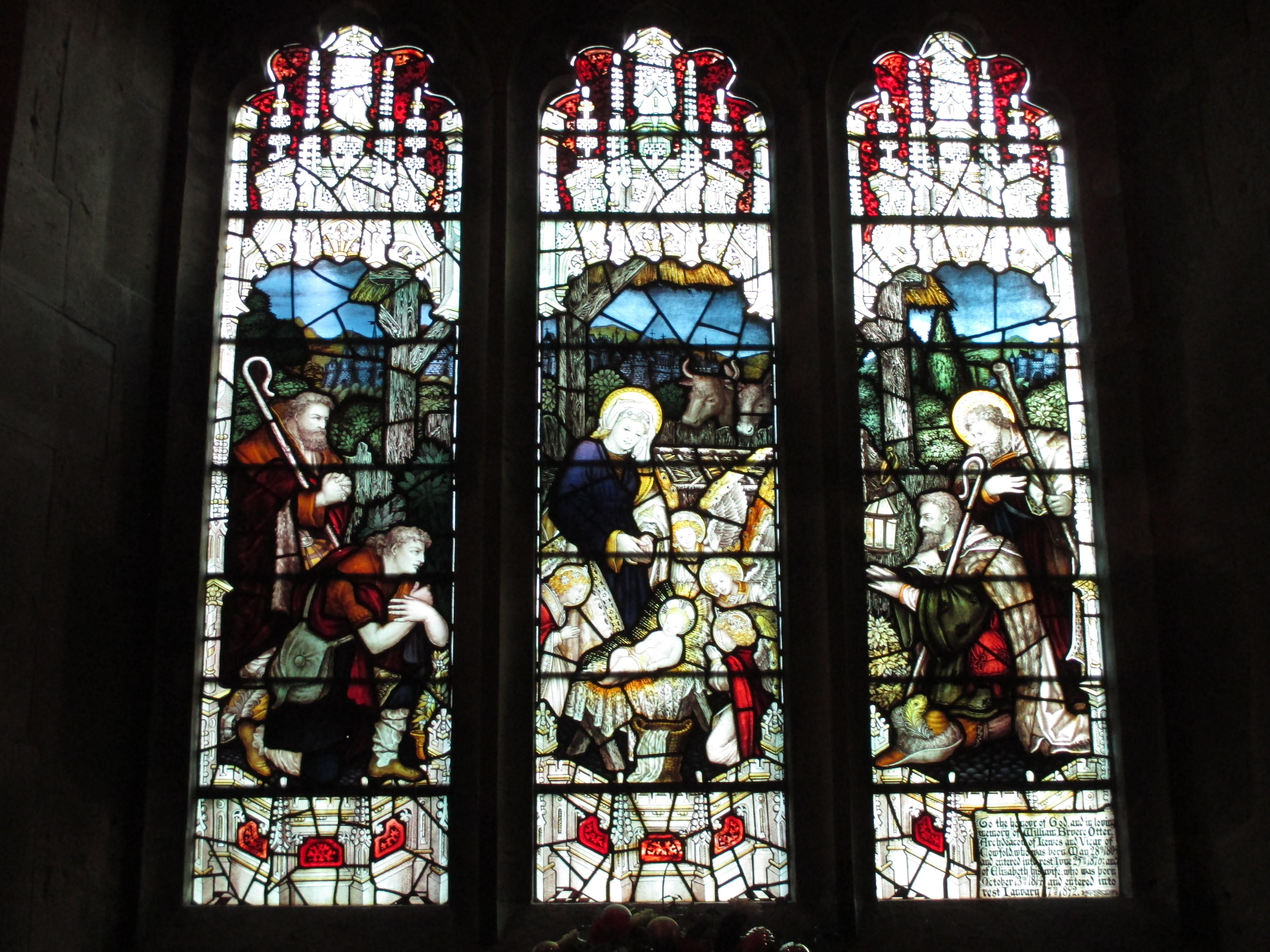 The second window of the south aisle of St Peter's parish church, Cowfold, West Sussex, designed by Charles Eamer Kempe